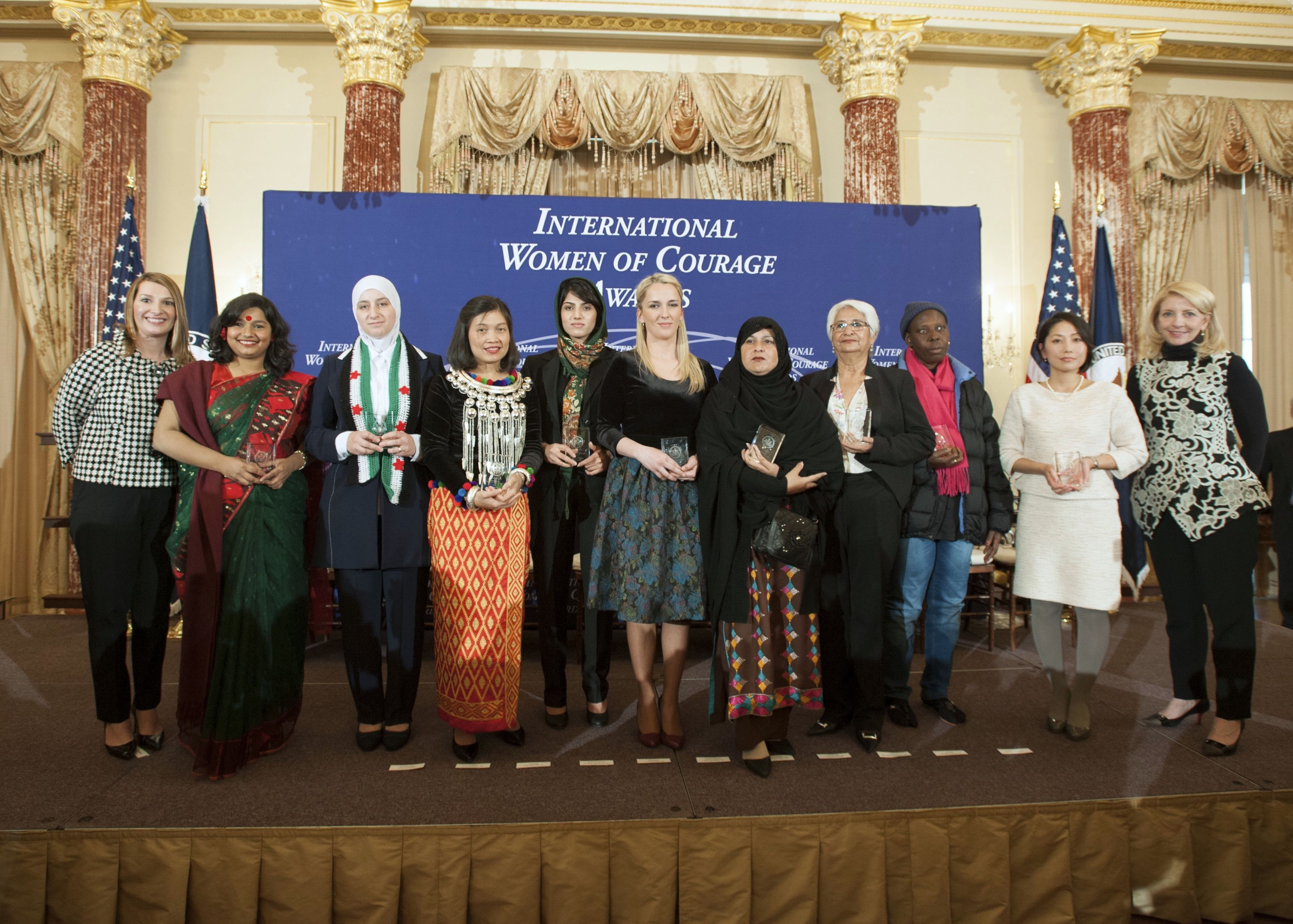 Deputy Secretary of State Heather Higginbottom, far left, and U.S. Ambassador-at-Large for Global Women’s Issues Cathy Russell, far right, pose for a photo with the 2015 International Women of Courage awardees at the U.S. Department of State in Washington, D.C., on March 6, 2015. From left, awardees include: Ms. Nadia Sharmeen, journalist, women’s rights activist (Bangladesh); Ms. Majd Chourbaji, External Relations Director, Women Now for Development Centers (Syria); Ms. May Sabe Phyu, Director, Gender Equality Network (Burma); Captain Niloofar Rahmani, Afghan Air Force (Afghanistan); Ms. Arbana Xharra, Editor-in-Chief, Zeri (Kosovo); Ms. Tabassum Adnan, Founder, Khwendo Jirga (Pakistan); Ms. Rosa Julieta Montaño Salvatierra, Founder and Director, Oficina Jurídica para la Mujer (Bolivia); Ms. Marie Claire Tchecola, nurse, Ebola survivor and activist (Guinea); and Ms. Sayaka Osakabe, Founder and Representative, Matahara Net (Japan). [State Department photo/ Public Domain] Not pictured: Beatrice Epaye, President, Fondation Voix du Coeur, (Central African Republic)